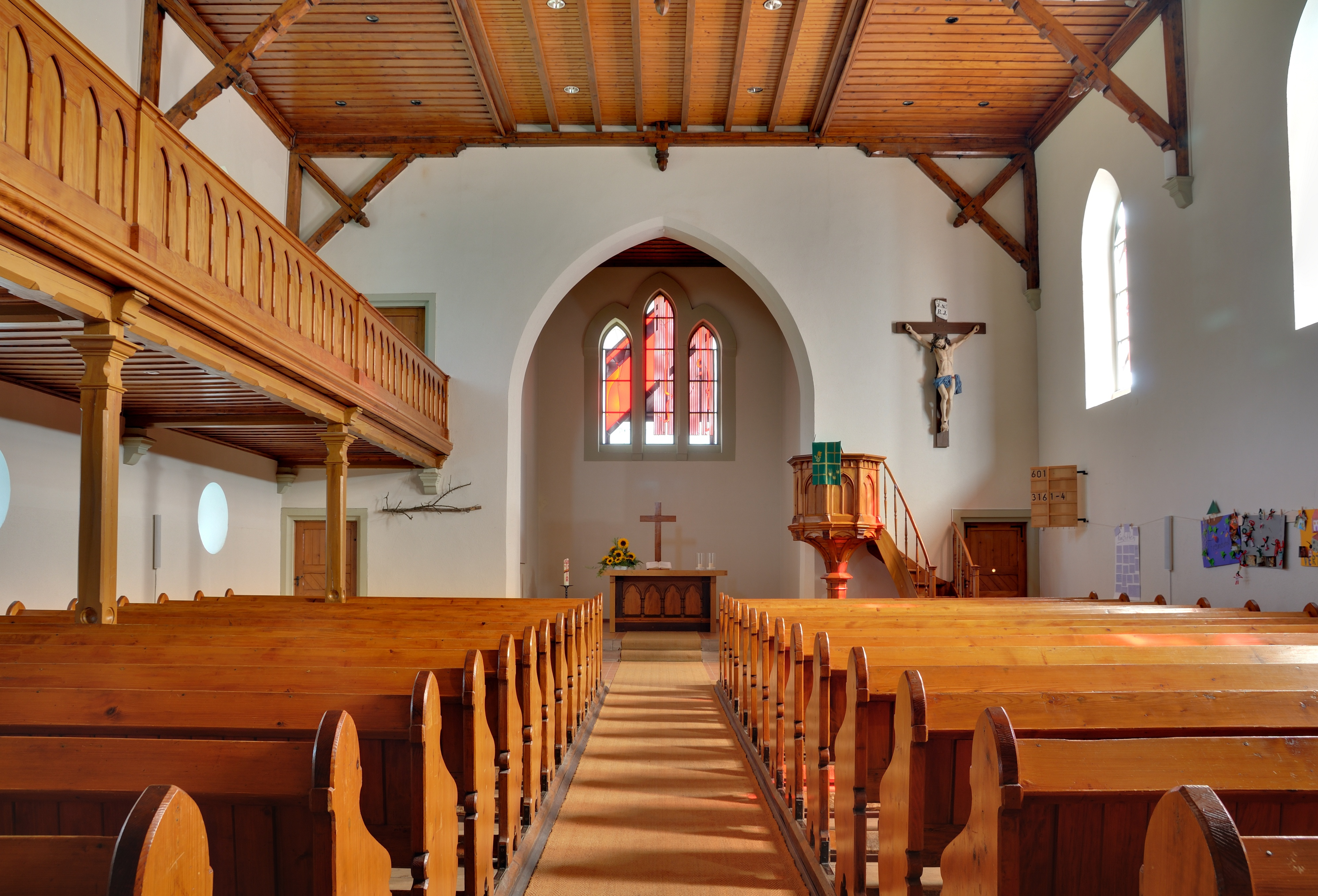 Steinen-Hofen: Protestant Church